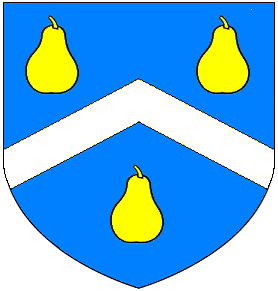 Arms of de Orchard of Orchard (Portman) in Somerset: Azure, a chevron argent between three pears pendant or (Collinson, History & Antiquities of Somerset, p.274, footnote)